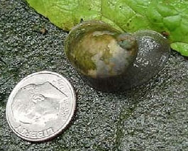 Photograph of a captive Chittenango ovate amber snail (Novisuccinea chittenangoensis) at the Rosamond Gifford Zoo, Syracuse, New York. The coin is a US dime, which is about 18 mm in diameter. The species lives only in one small place near Chittenango Falls in New York State, and is listed by New York State as an endangered species.